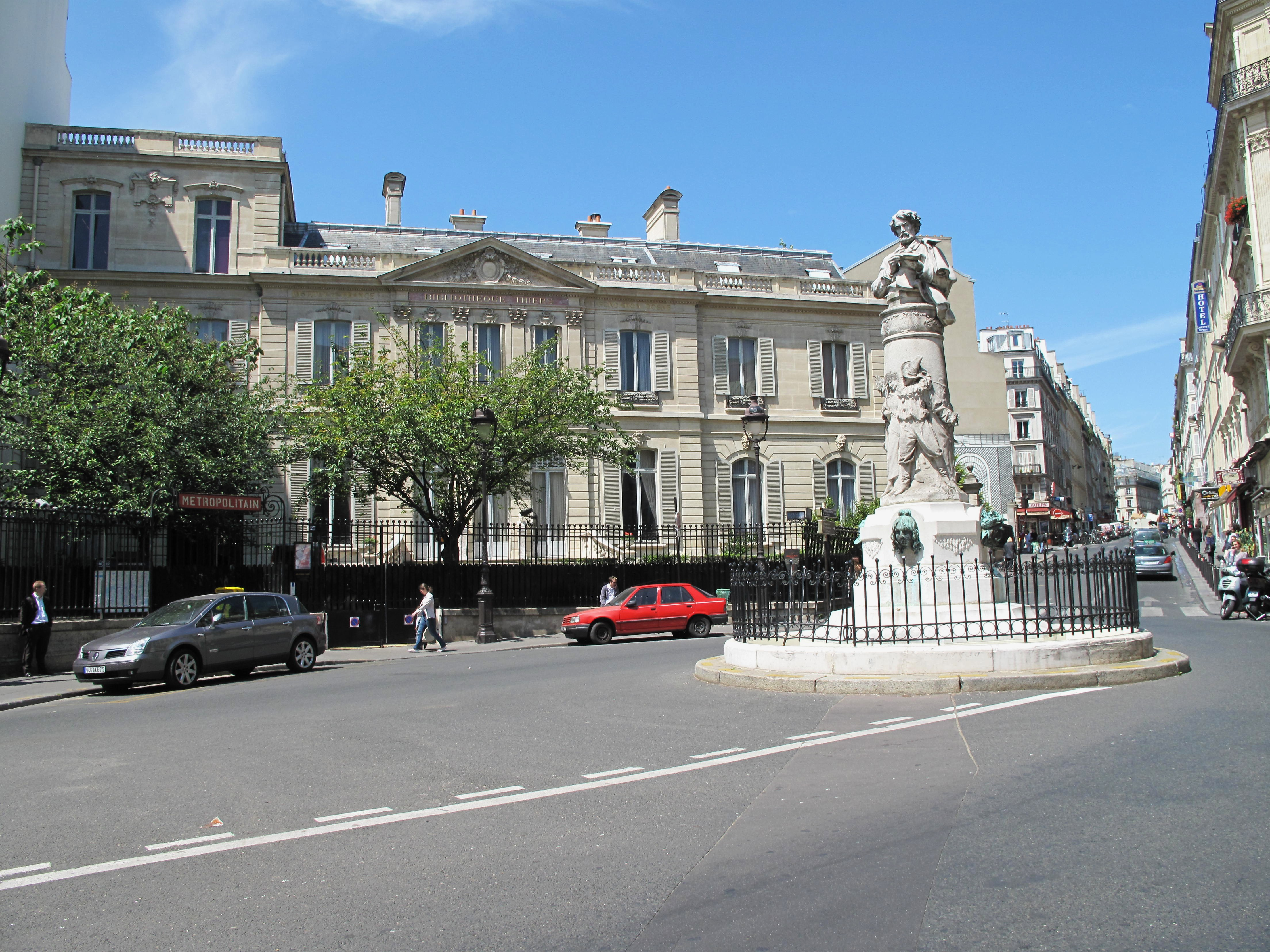 Place Saint-Georges (Paris), with the statue of Gavarni and the hôtel Thiers.